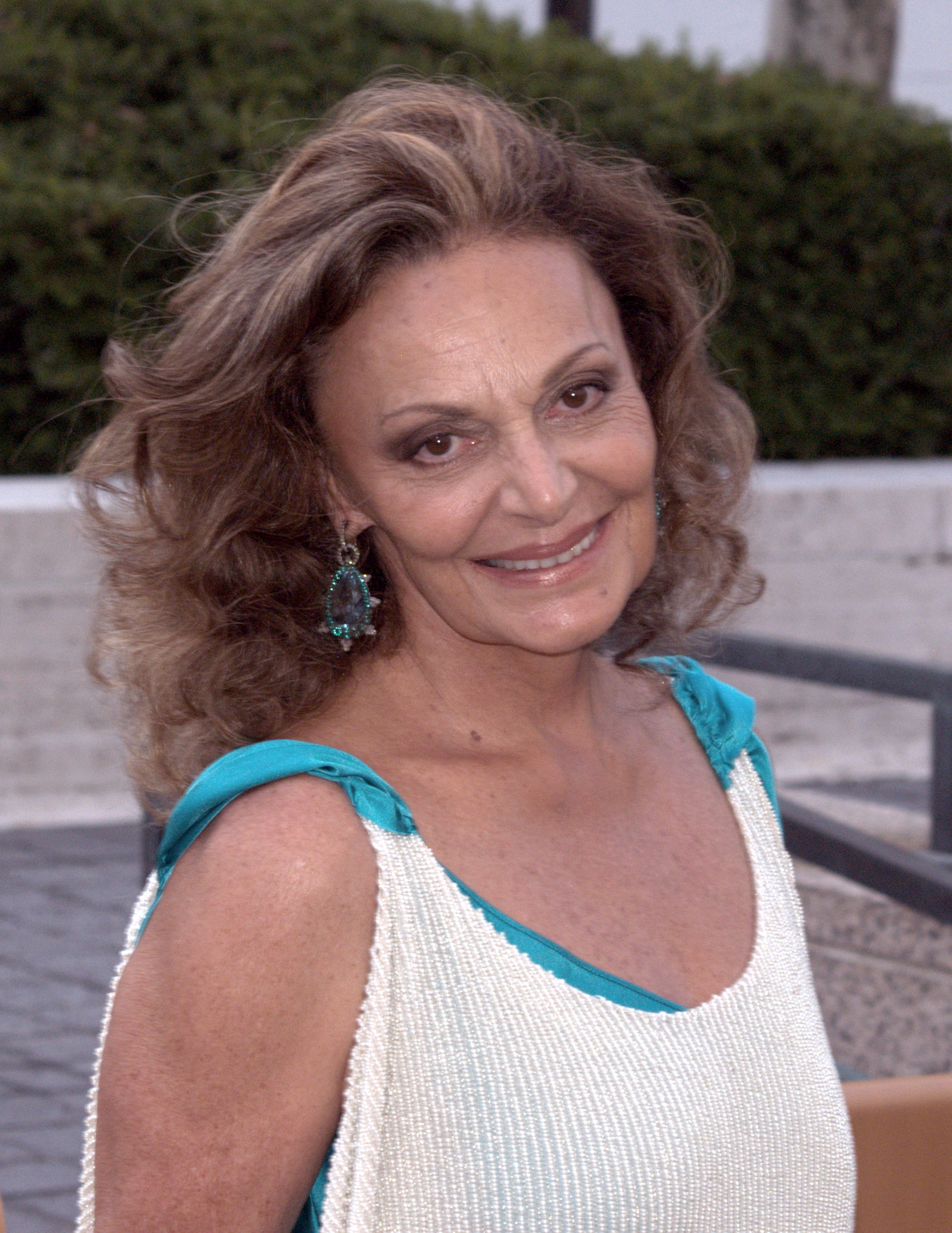 Diane von Furstenberg at the 2009 premiere of the Metropolitan Opera in New York City. Photographer's blog post about event and photograph.